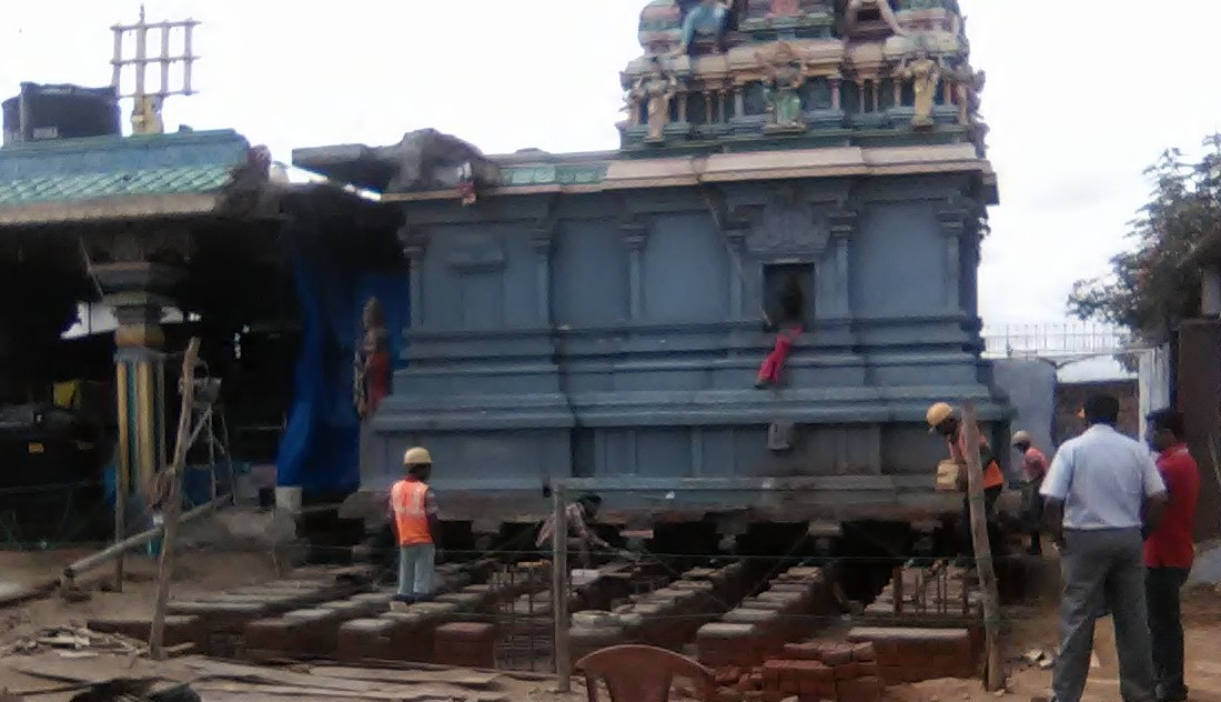 ஒசூரில் இடம் நகர்த்தப்பட்ட ஒரு கோயில்